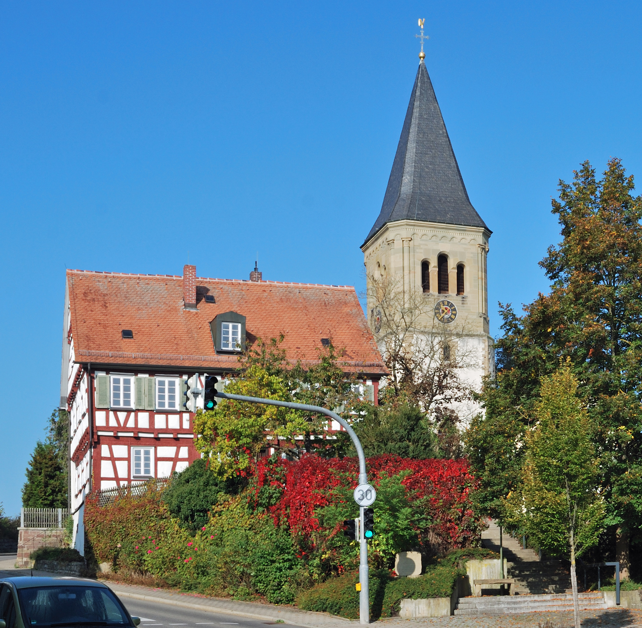 Vier of the protestant church and of the vicarage in Gebersheim in the German Federal State Baden-Württemberg.